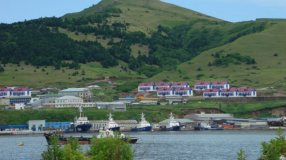 Malokurilskoye, Shikotan Island; Coast guard ships of Russia: Zabaykalye (196), PSKR-907 (104)